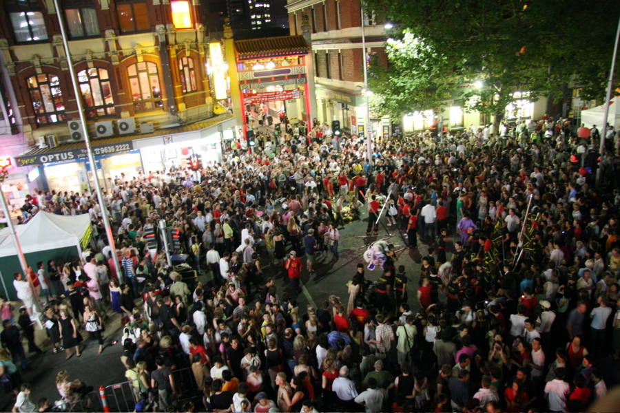 Entrance to Melbourne Chinatown